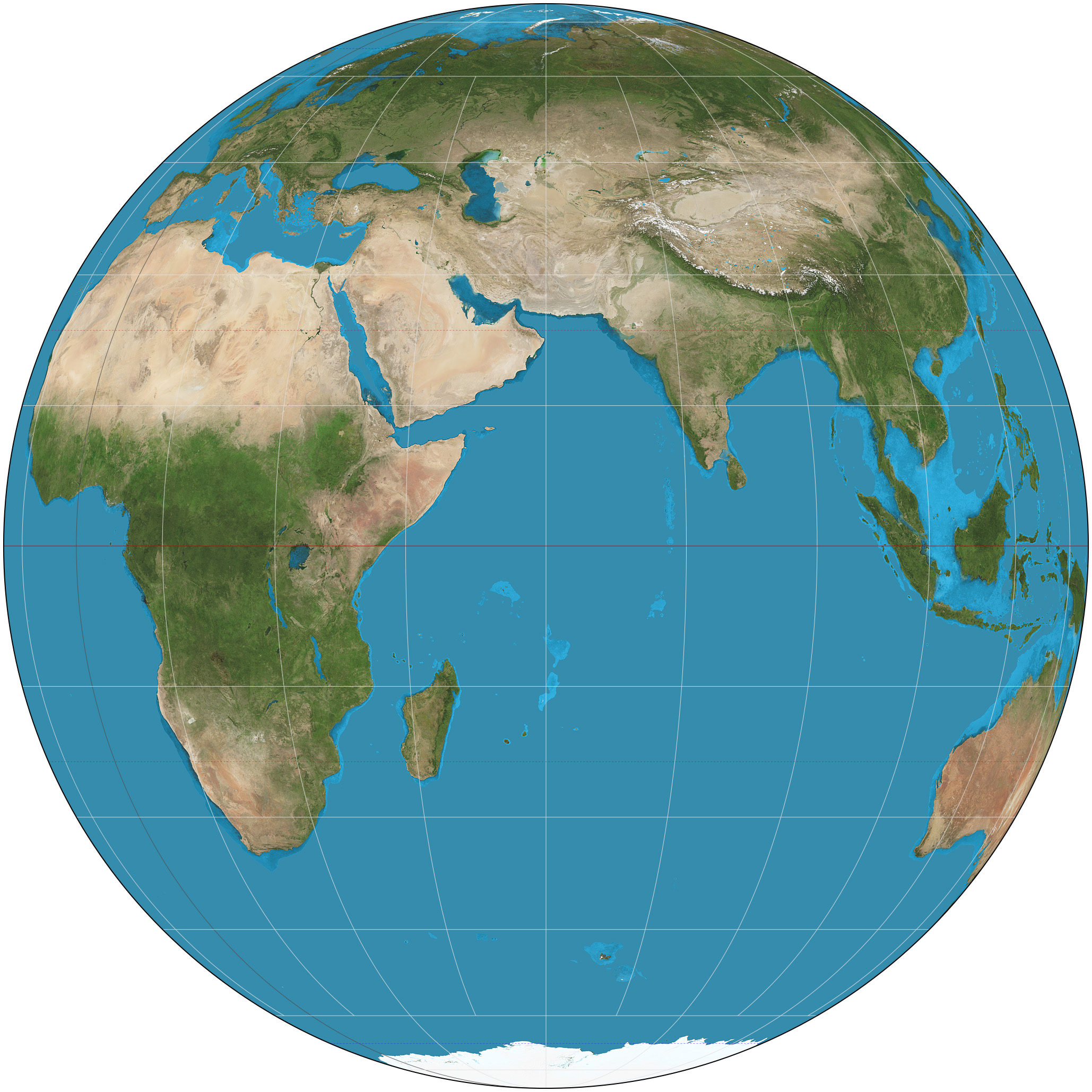 Eastern hemisphere on orthographic projection. 15° graticule, 60°E central meridian. Imagery is a derivative of NASA’s Blue Marble summer month composite with oceans lightened to enhance legibility and contrast. Image created with the Geocart map projection software.